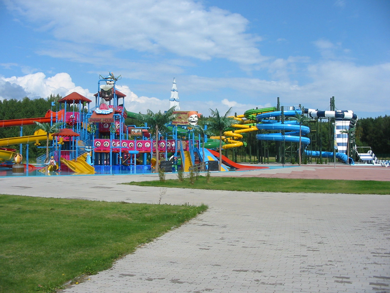 Jukupark Turku, Finland